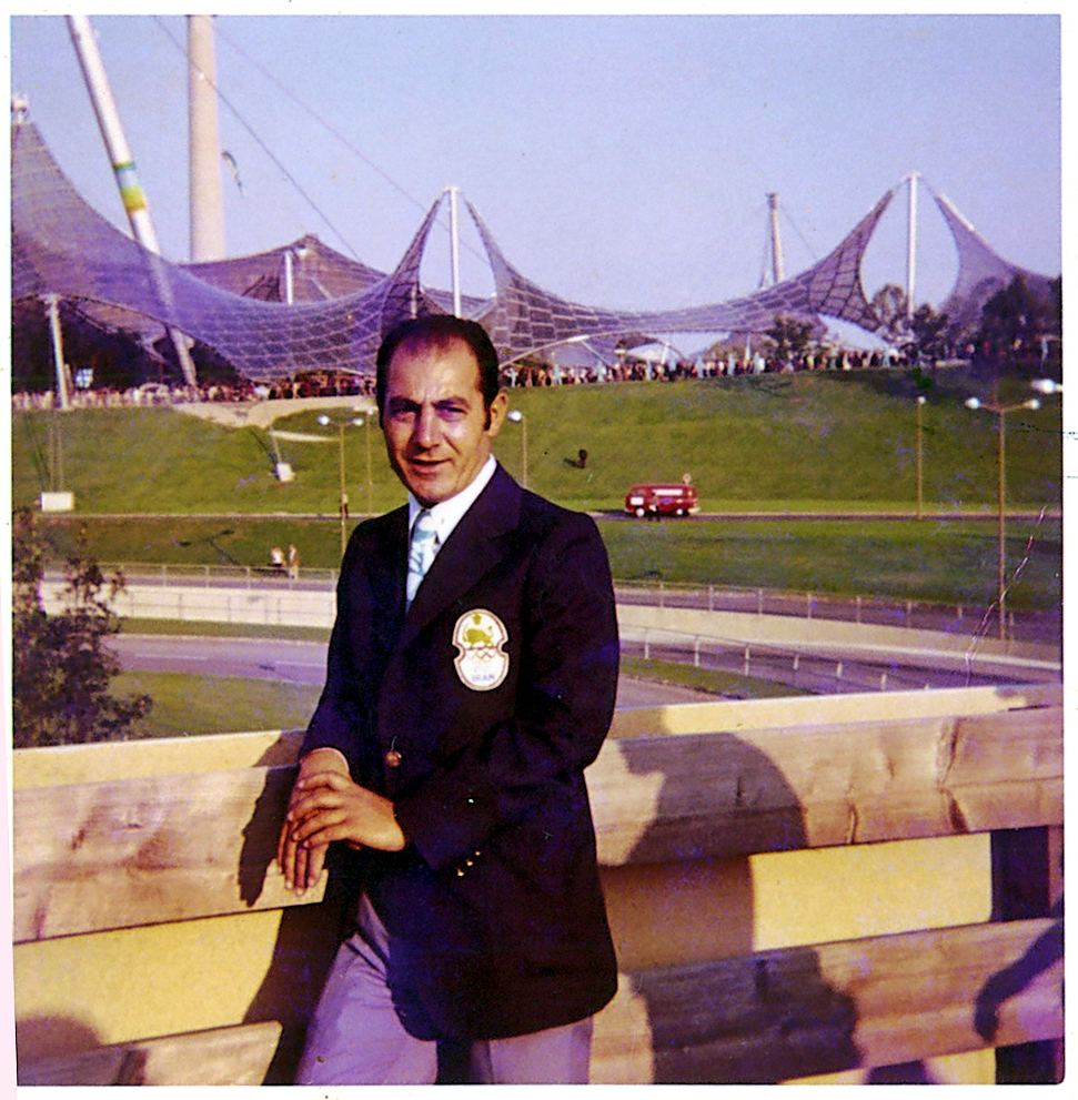 Mozaffar Mosaferi as head coach of Iran national boxing team in 1972 Summer Olympics in Munich, West Germany